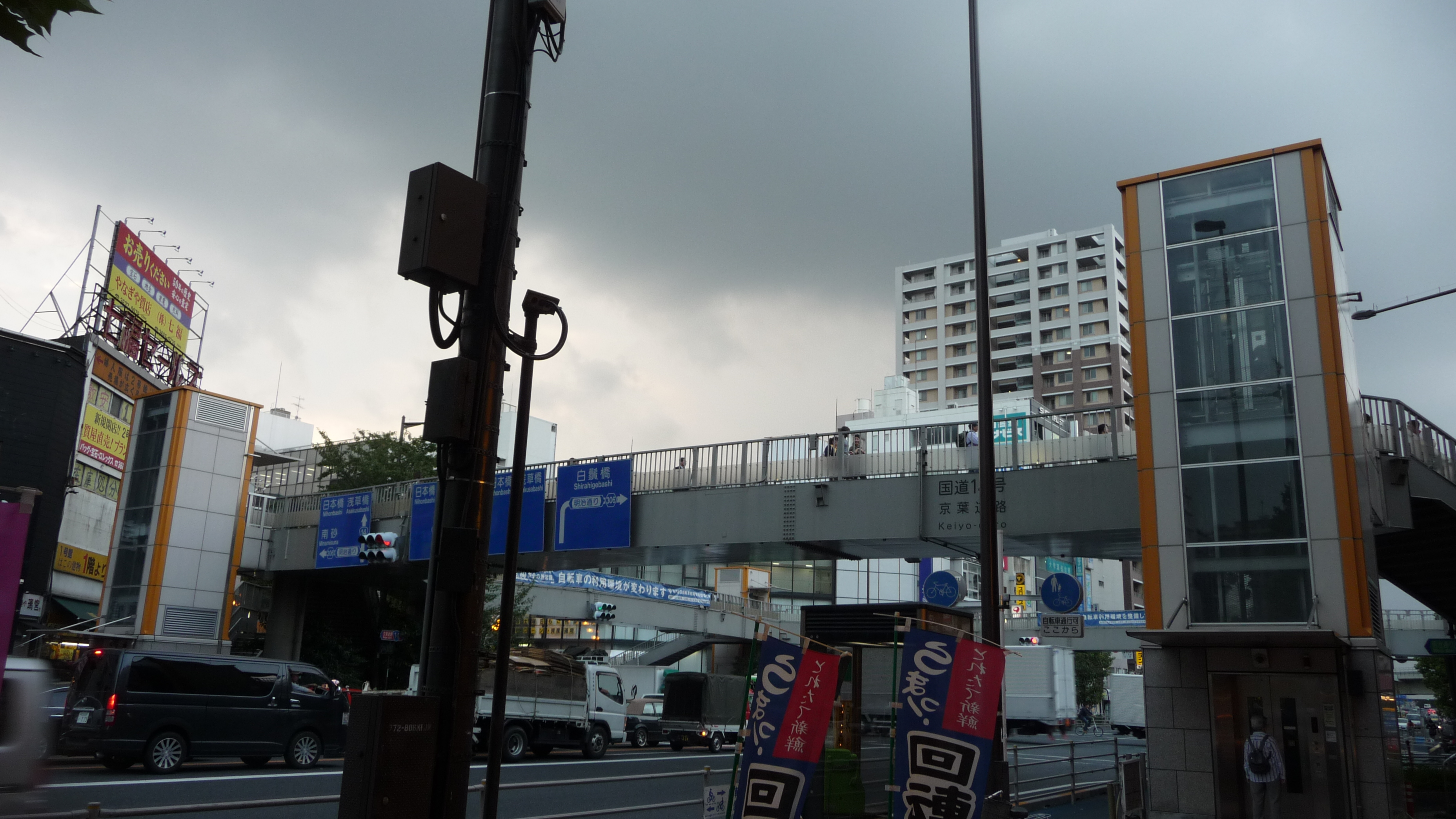 Footbridge with four elevators on each corner of intersection 4 way of Japan National Route 14, next to Kameido Station, Tokyo Japan.